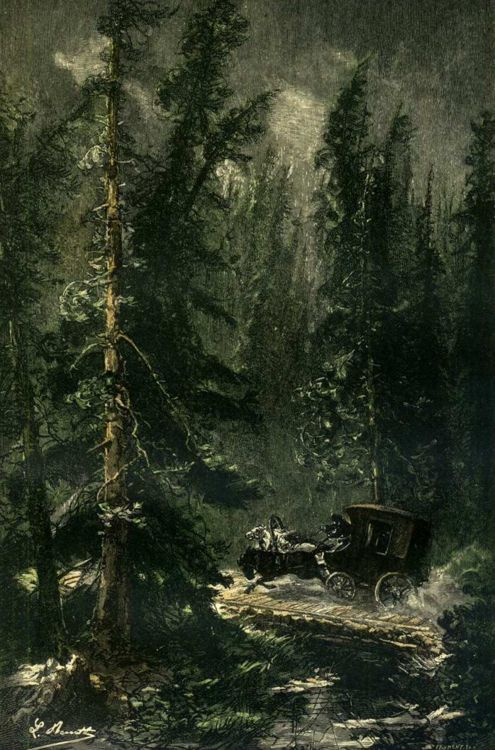 An illustration from Jules Verne's novel "A Drama in Livonia" (1893) drawn by Léon Benett.